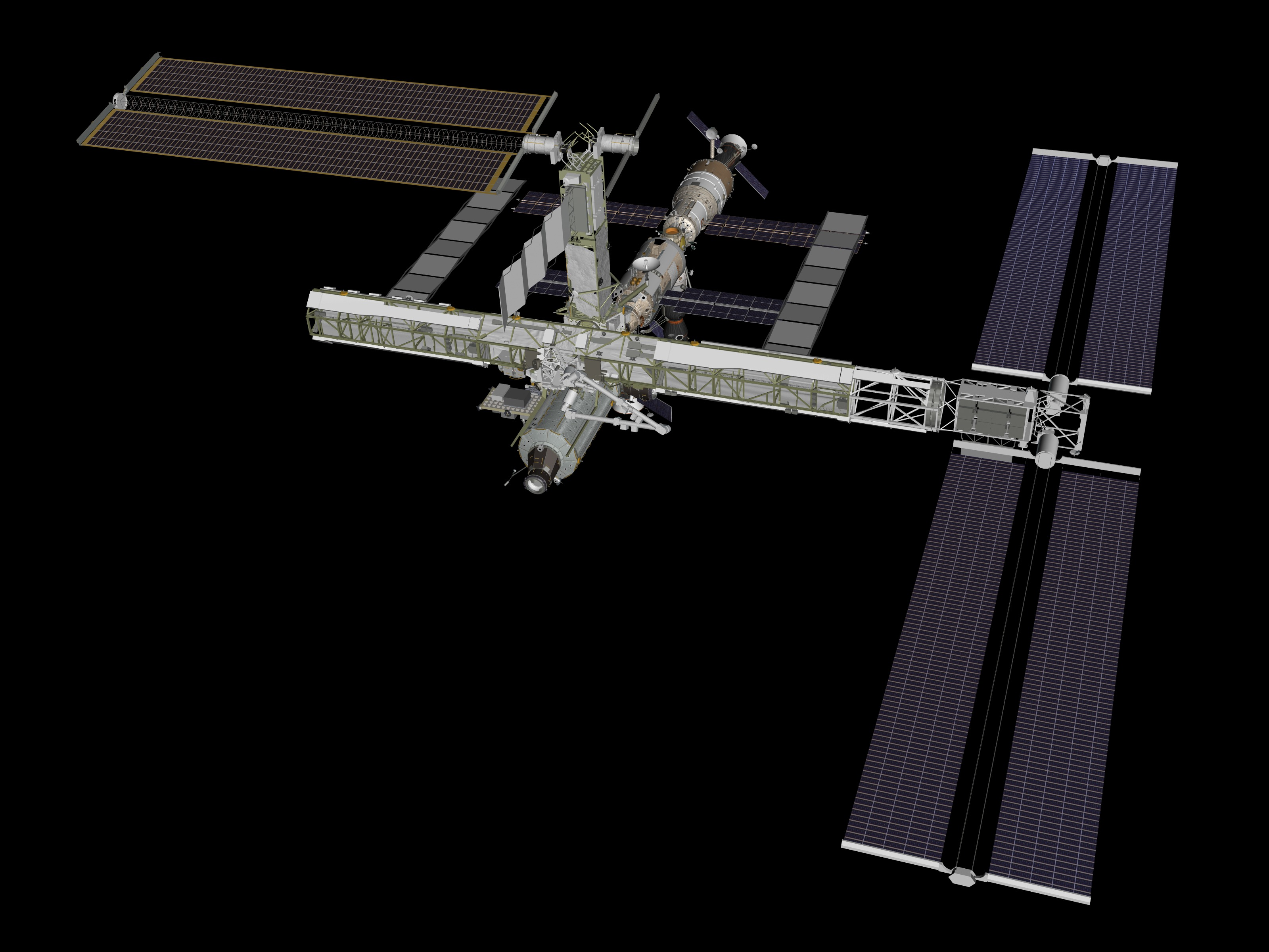 JSC2006-E-38950 (August 2006) --- Computer generated graphic of the International Space Station configuration after STS-116/12A.1 with the addition of the P5 integrated truss segment.